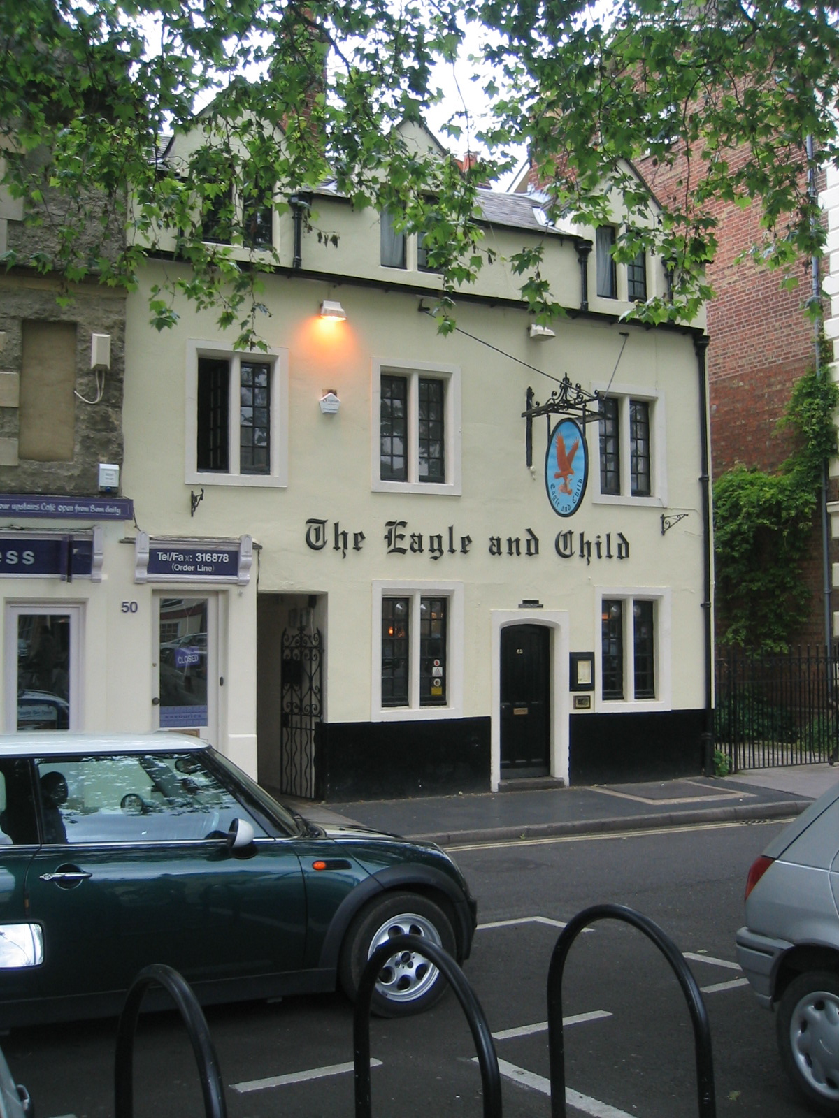 Picture of The Eagle and Child pub facade, in Oxford (England).